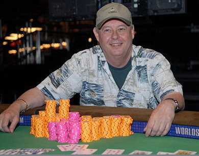 Chris Reslock in the 2007 World Series of Poker - Rio Las Vegas.